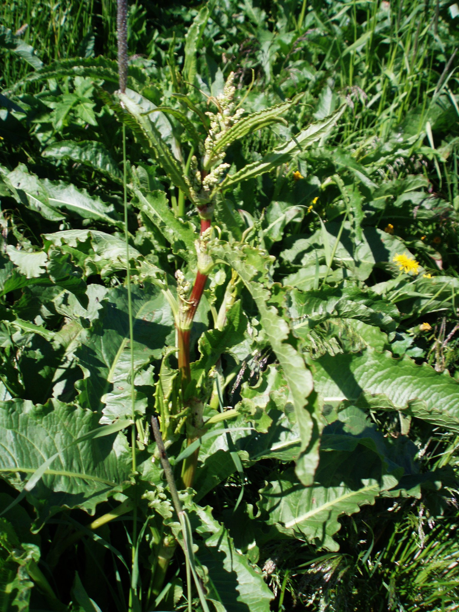 Rumex_longifolius (de: Gemüse-Ampfer) nearby Myvatn in Iceland